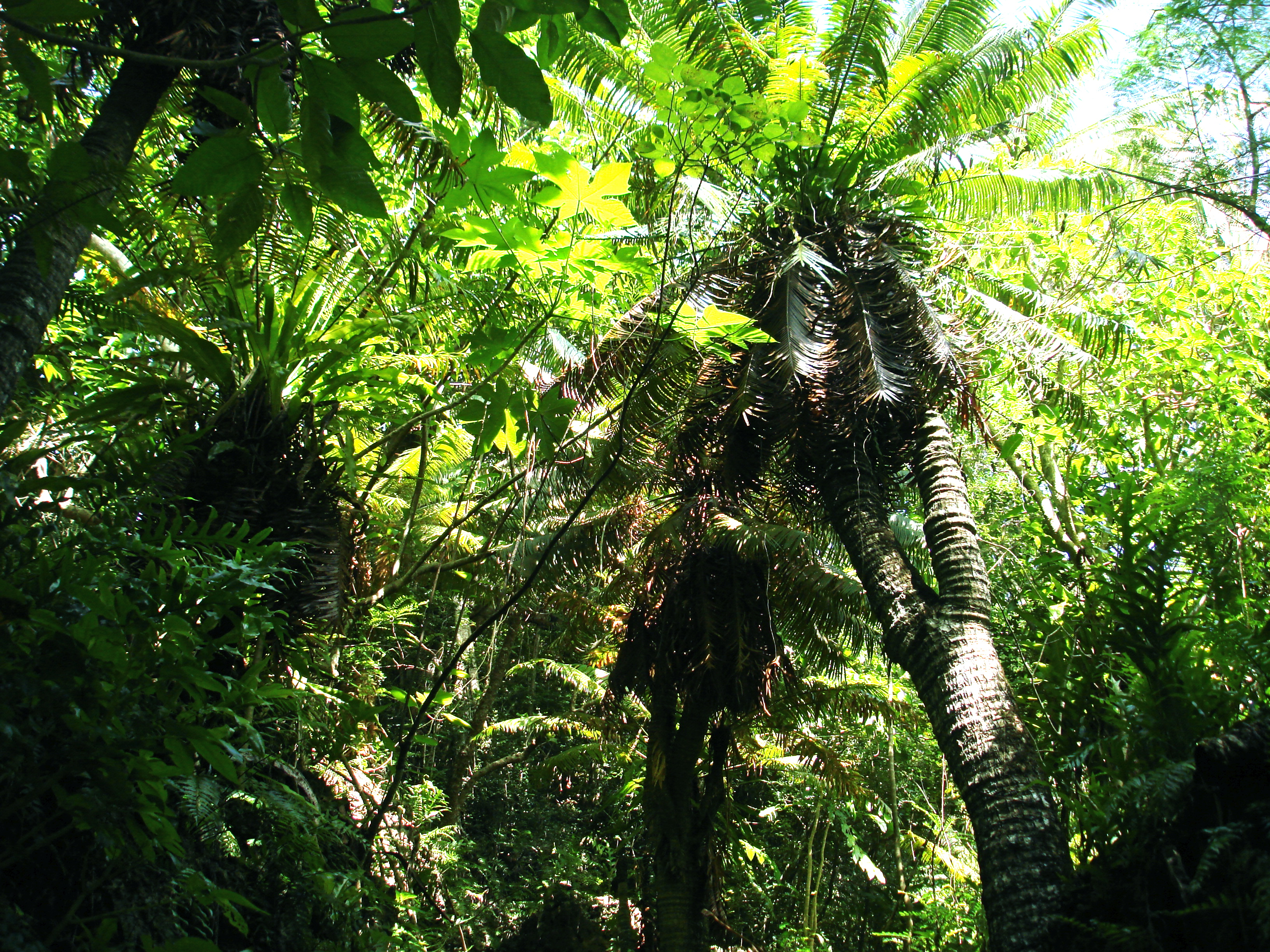 Understory habitation of C. micronesica